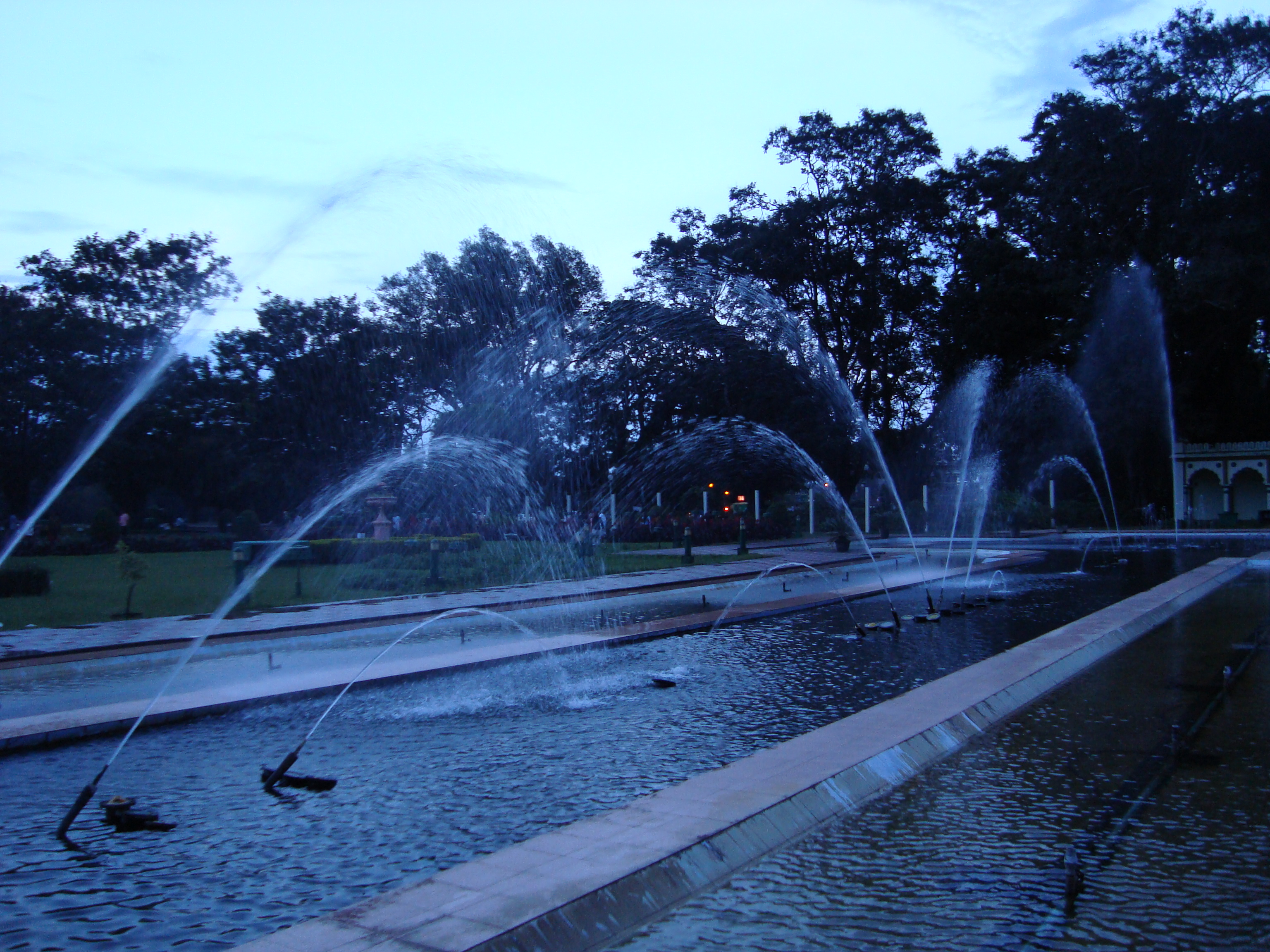 KRS Mysore